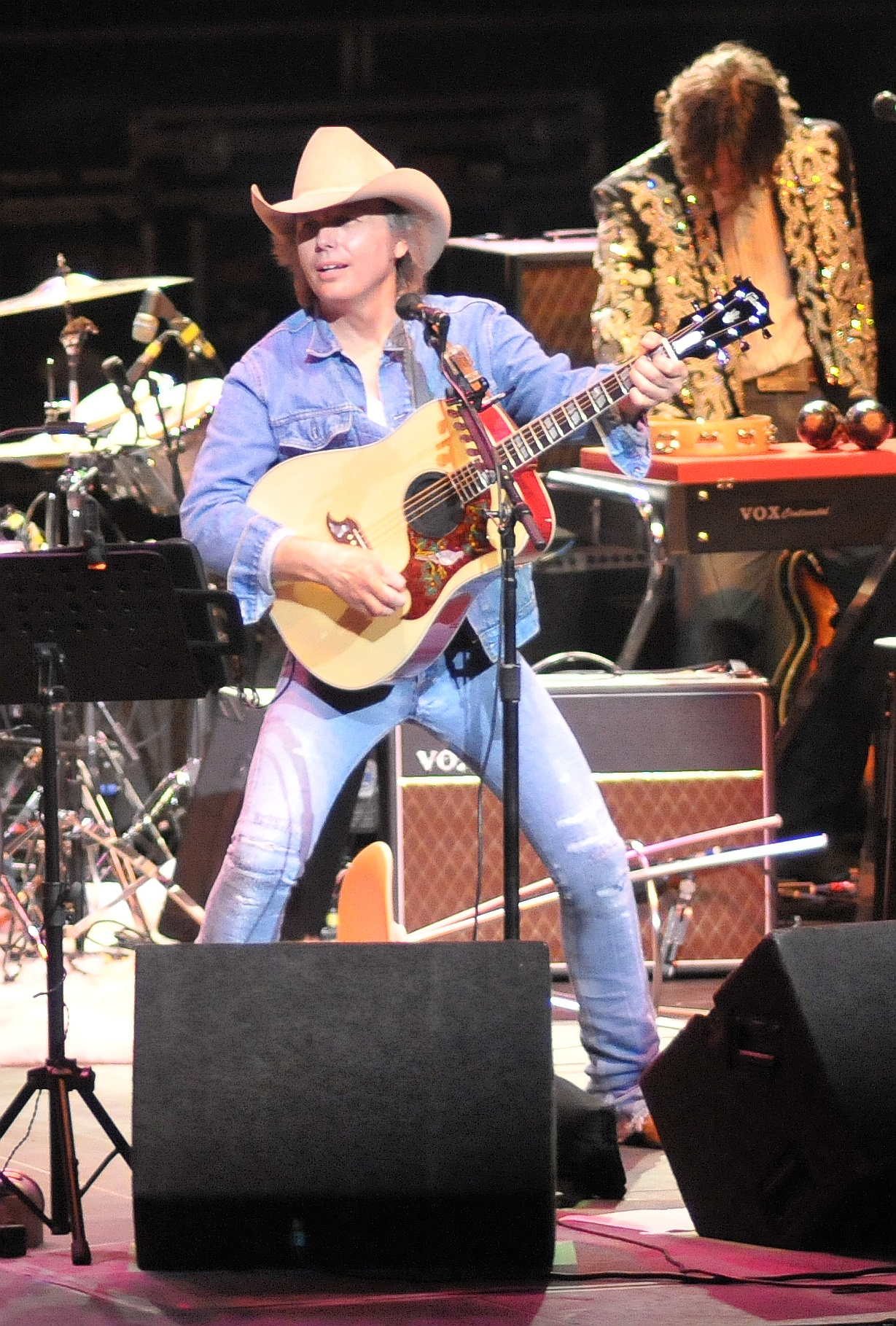 Dwight Yoakam at the 2008 San Diego County Fair (Album)